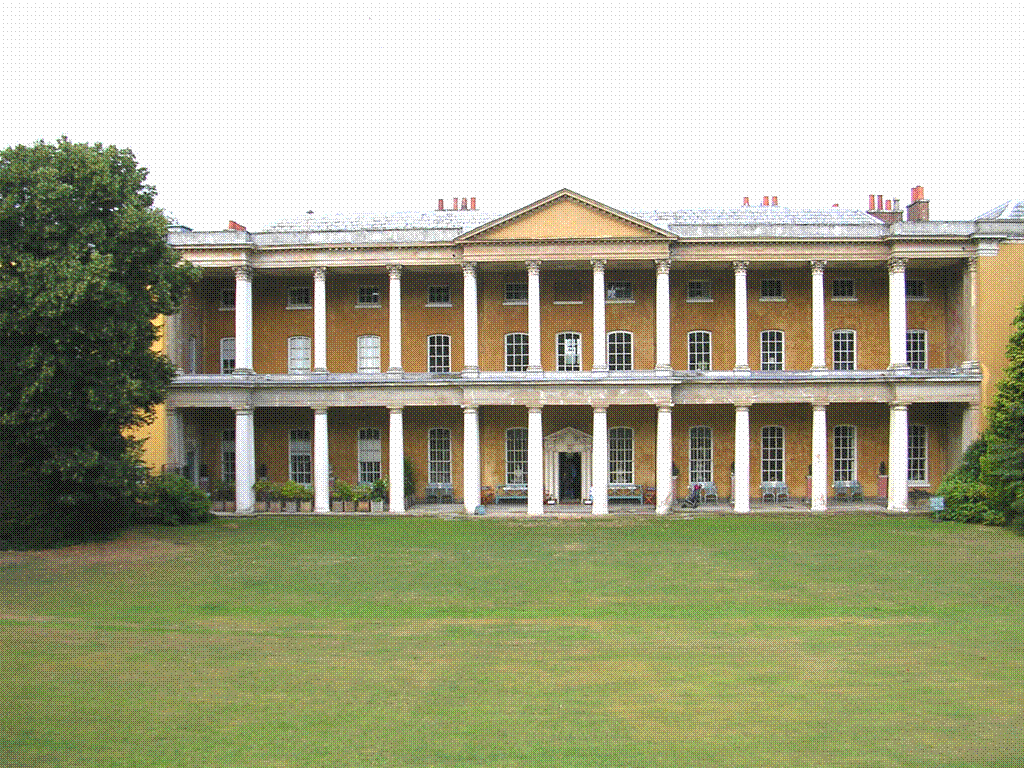 West Wycombe Park, Buckinghamshire, England.